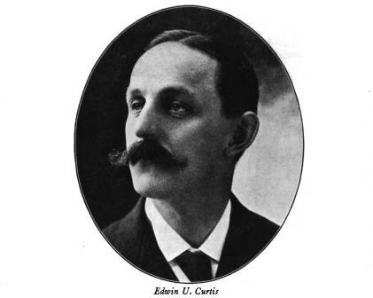 Mayors of Boston: An Illustrated Epitome of who the Mayors Have Been and What they Have Done, Boston, MA: State Street Trust Company, 1914